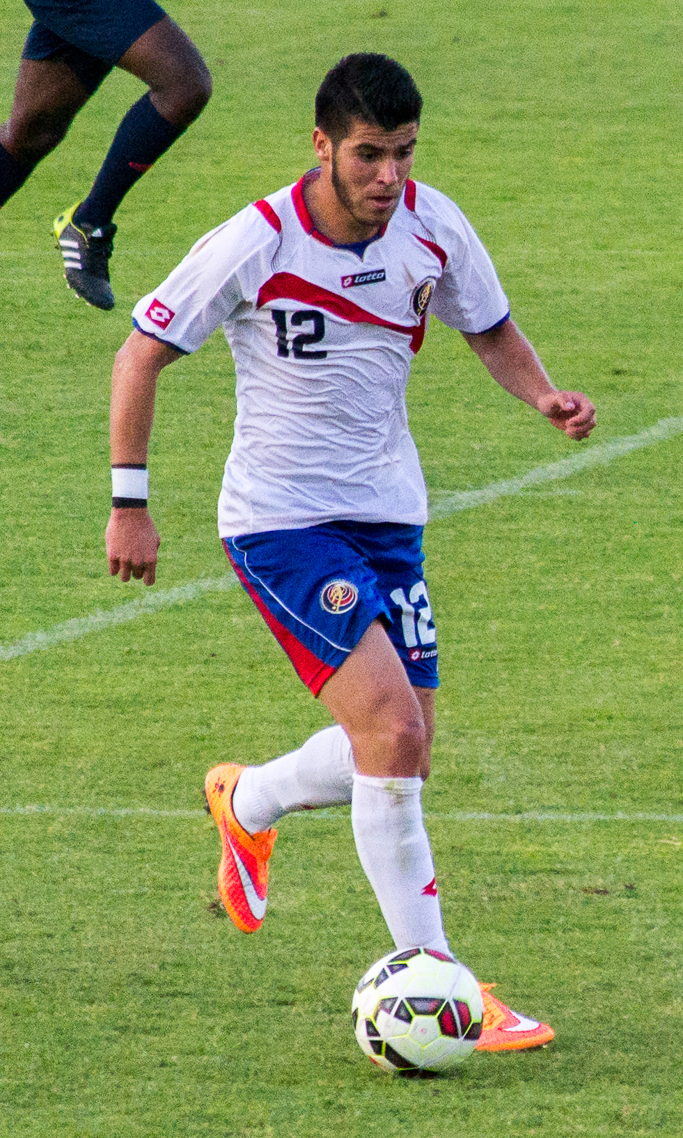 Ulises Segura playing for Costa Rica U-23 in a match against France at the 2015 Toulon Tournament